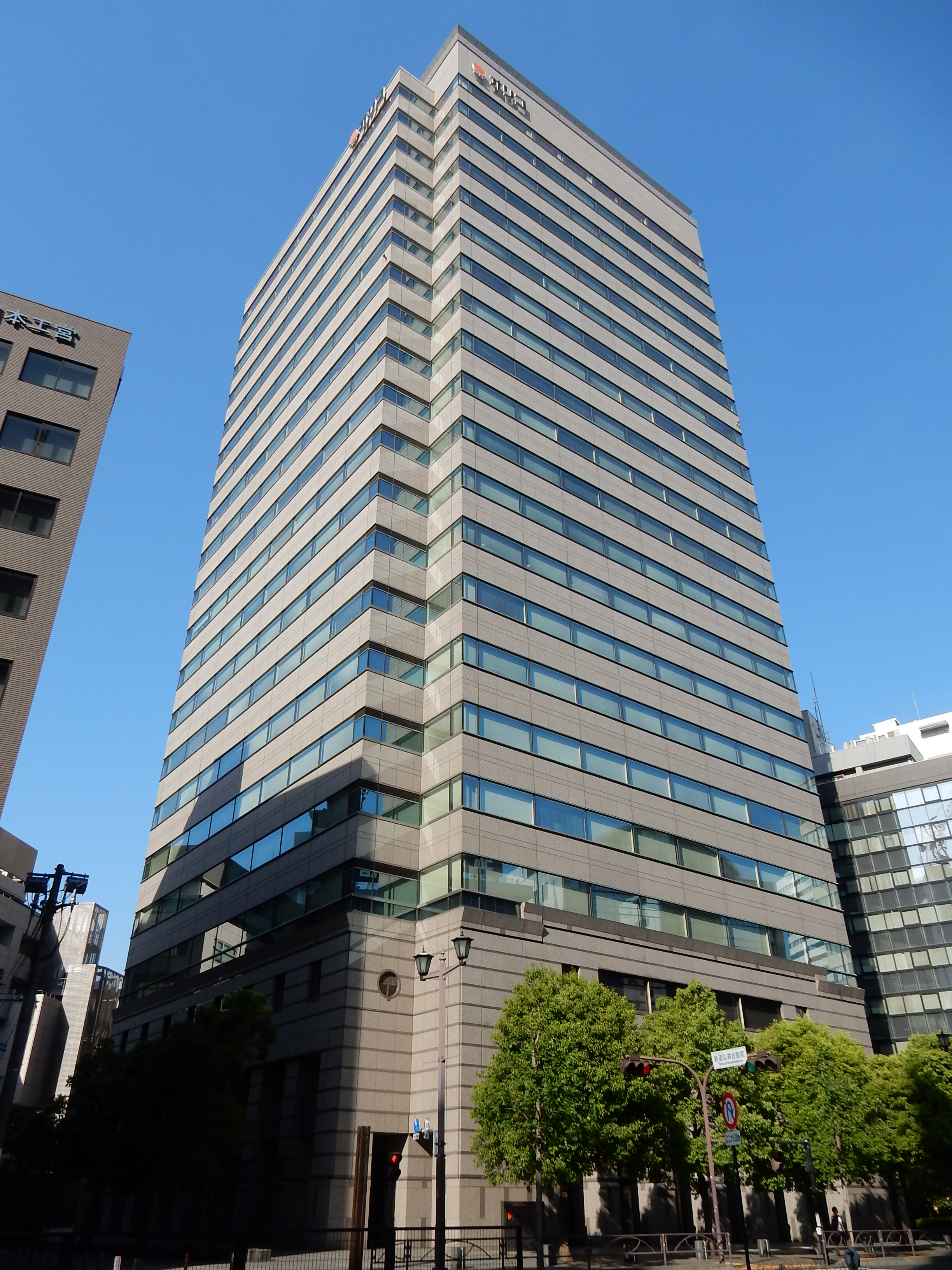 Orient Corporation (株式会社オリエントコーポレーション) headquarters, at 5-2-1 Kōjimachi, Chiyoda, Tokyo, Japan